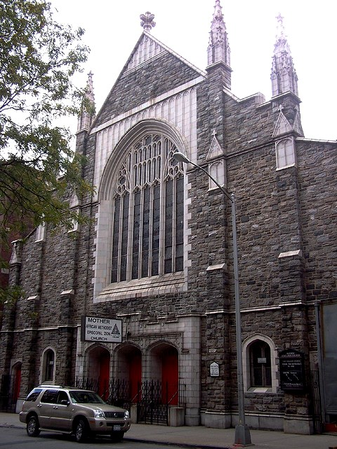 Mother African Methodist Episcopal Zion Church in Harlem, New York City, the city's oldest African-American church (photo taken 2006)